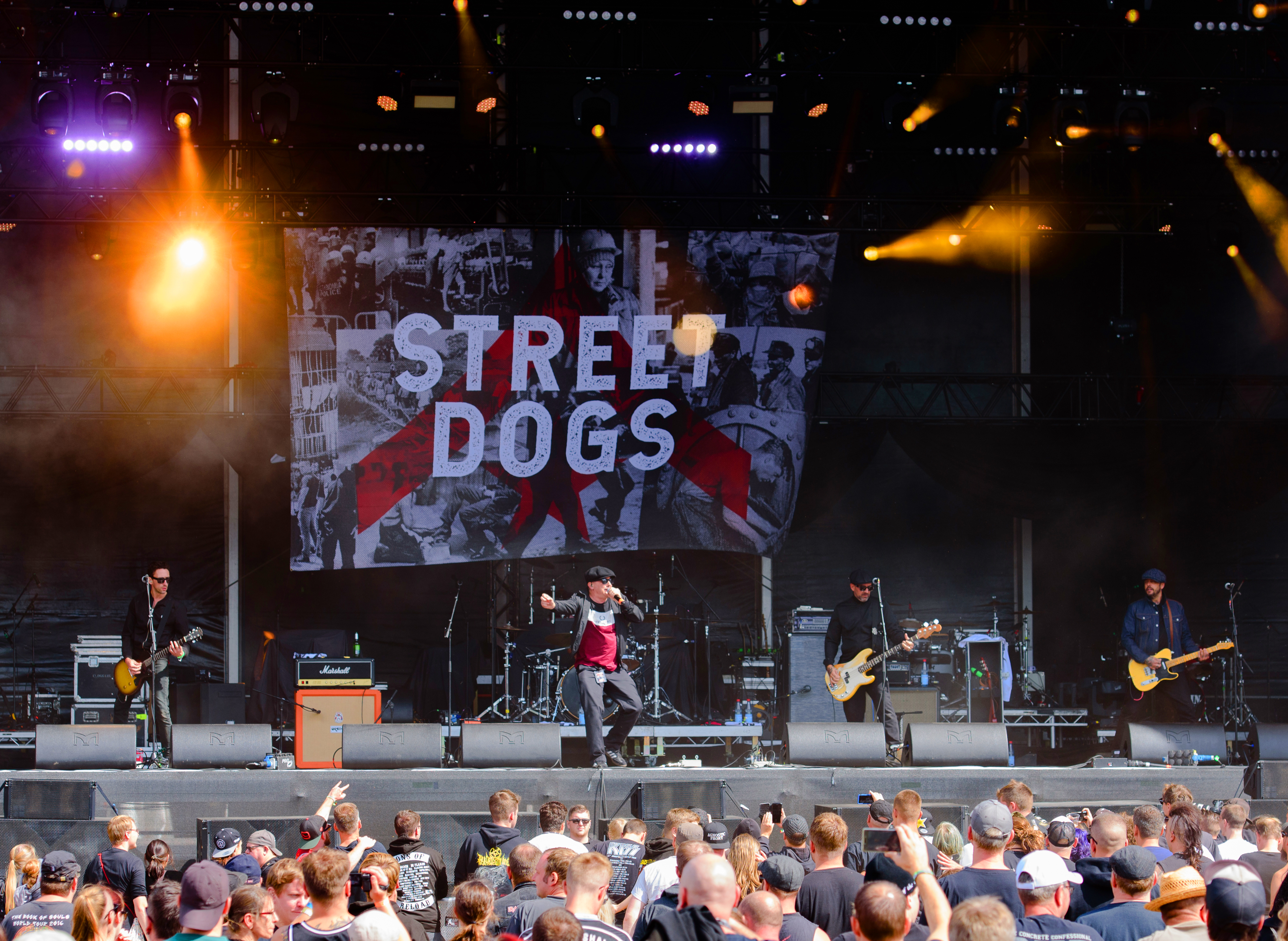 Street Dogs playing at Reload Festival 2018